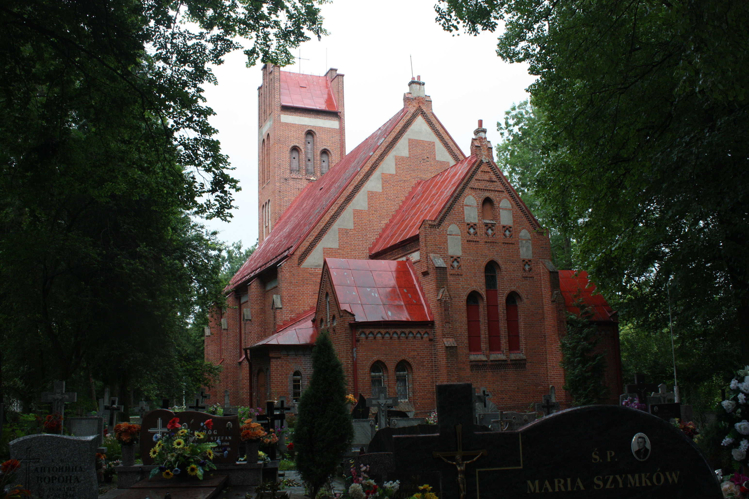 This photo of Warmian-Masurian Voivodeship was taken during Wikiexpedition 2012 set up by Wikimedia Polska Association. You can see all photographs in category Wikiekspedycja 2012. The making of this document was supported by Wikimedia Polska.